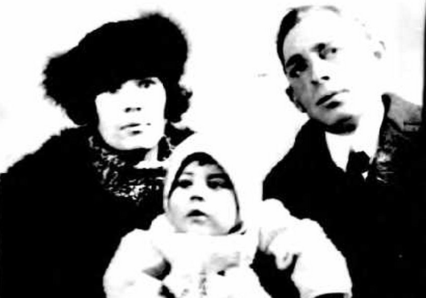 Photograph of Miller Pontius and family